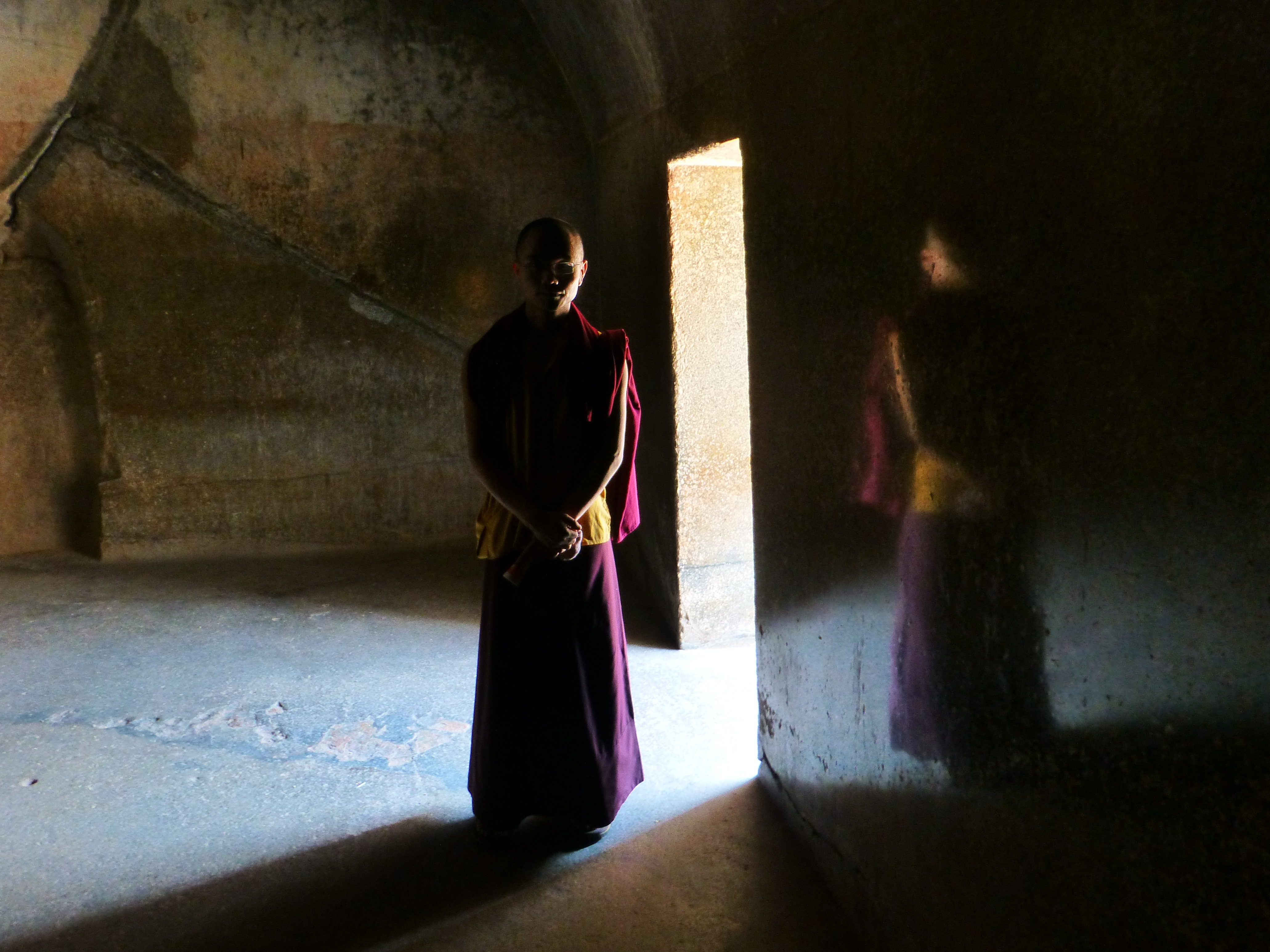 064 Inside Lomas Rishi Cave at Barabar, Bihar Photograph from the Barabar Caves in Bihar taken by Anandajoti. WARNING: this is actually Sudama Caves, next to Lomas Rishi (Gupta, The roots of Indian Art, pp. 190-191).पाटलिपुत्र (talk) 11:26, 5 May 2018 (UTC)